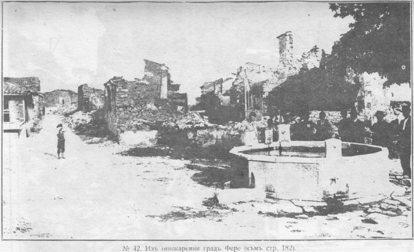 Ruins fo the town of Fere (nowadays Feres in north-western Greece) after the battle of Fere, devastated by the Ottoman forces, 1913.